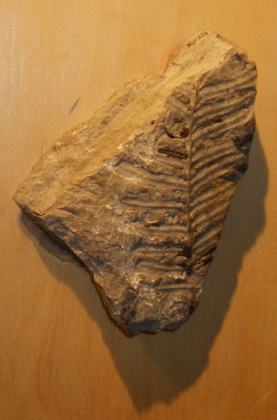 fossil lomatopteris